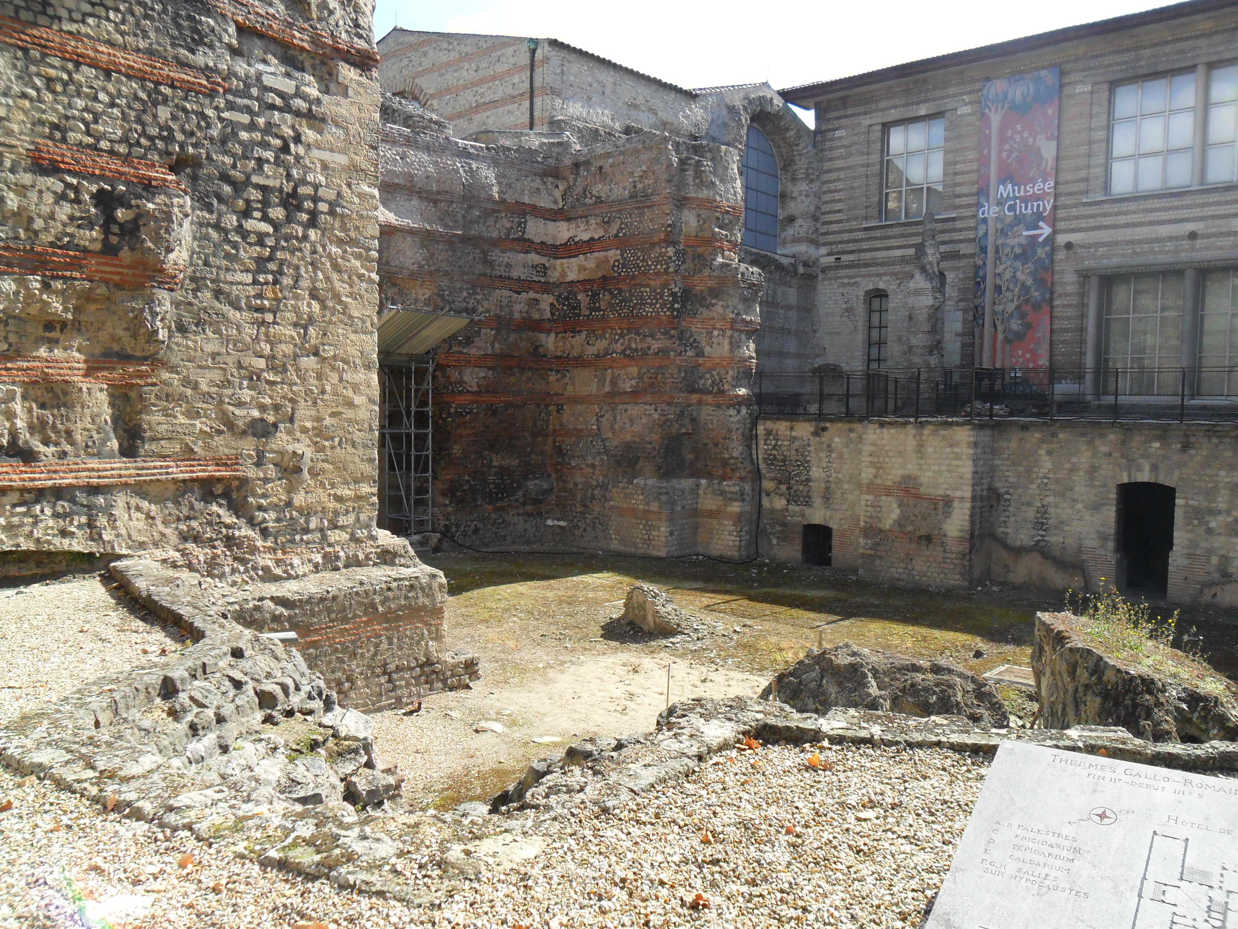 The Thermes de Cluny in Paris .